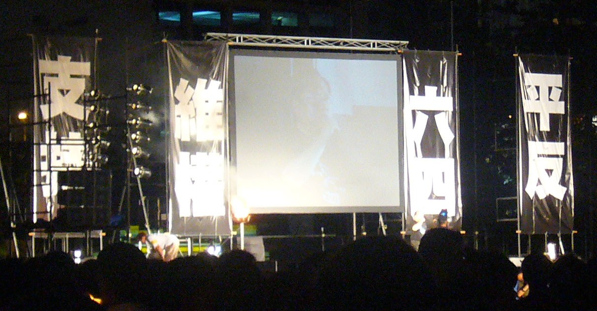 六四事件 六四事件纪念活动 維園六四燭光晚會 香港市民支援愛國民主運動聯合會